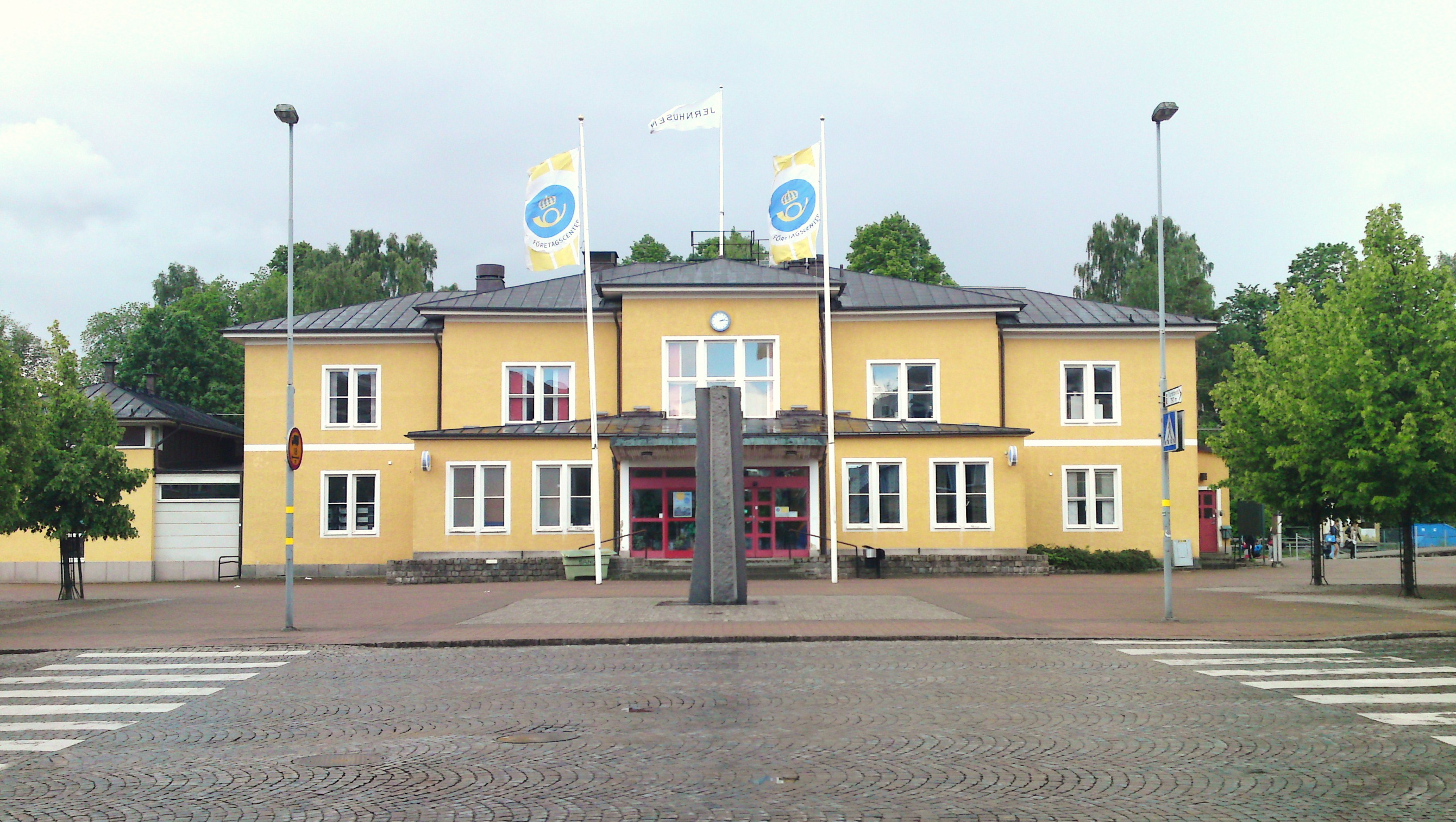 Växjö old station, Småland, Sweden